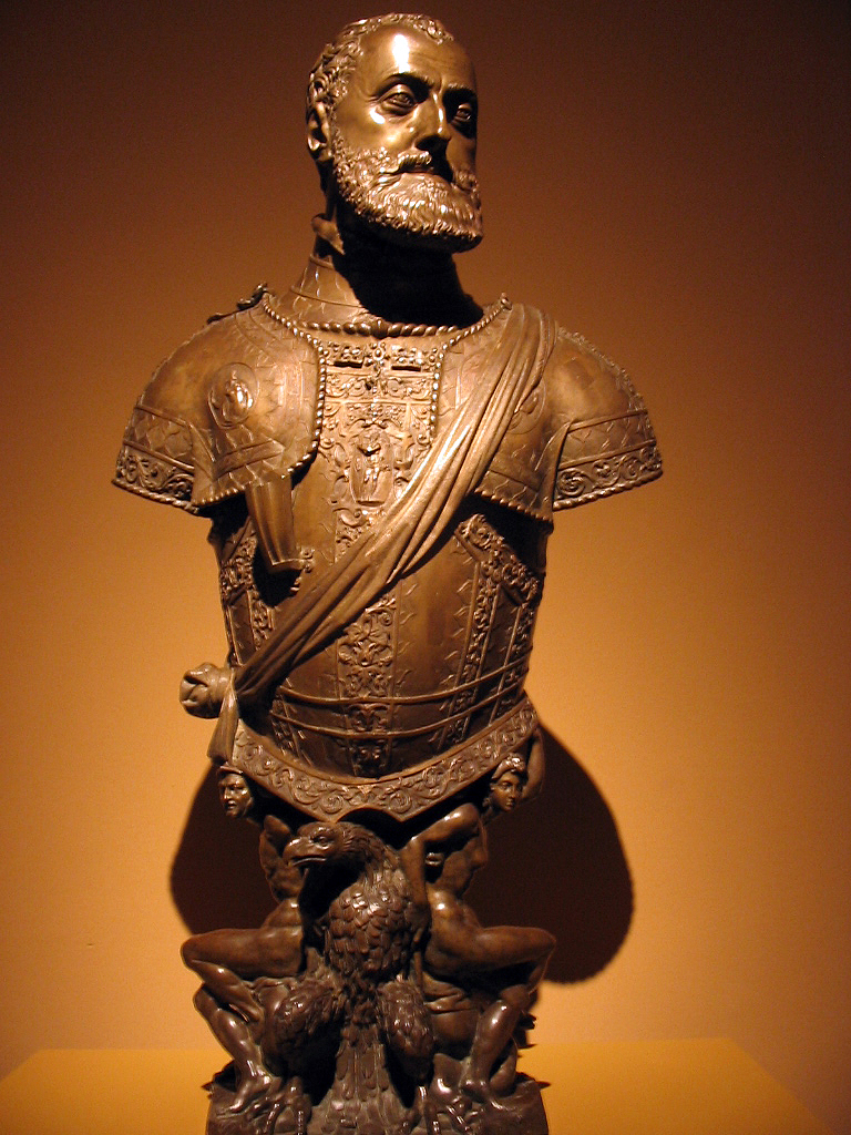 Sculpture of Holy Roman Emperor Charles V (1500–1558)